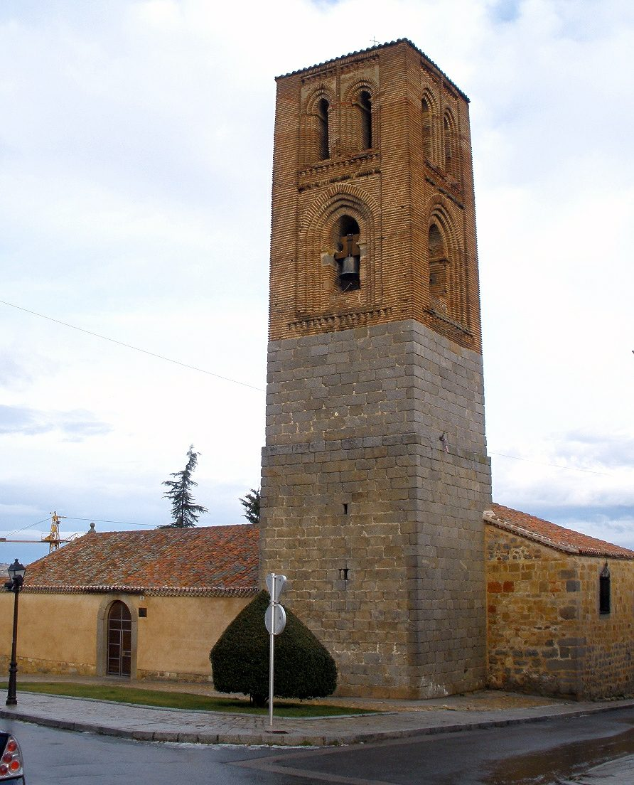 iglesia de San Martín (Ávila, España).